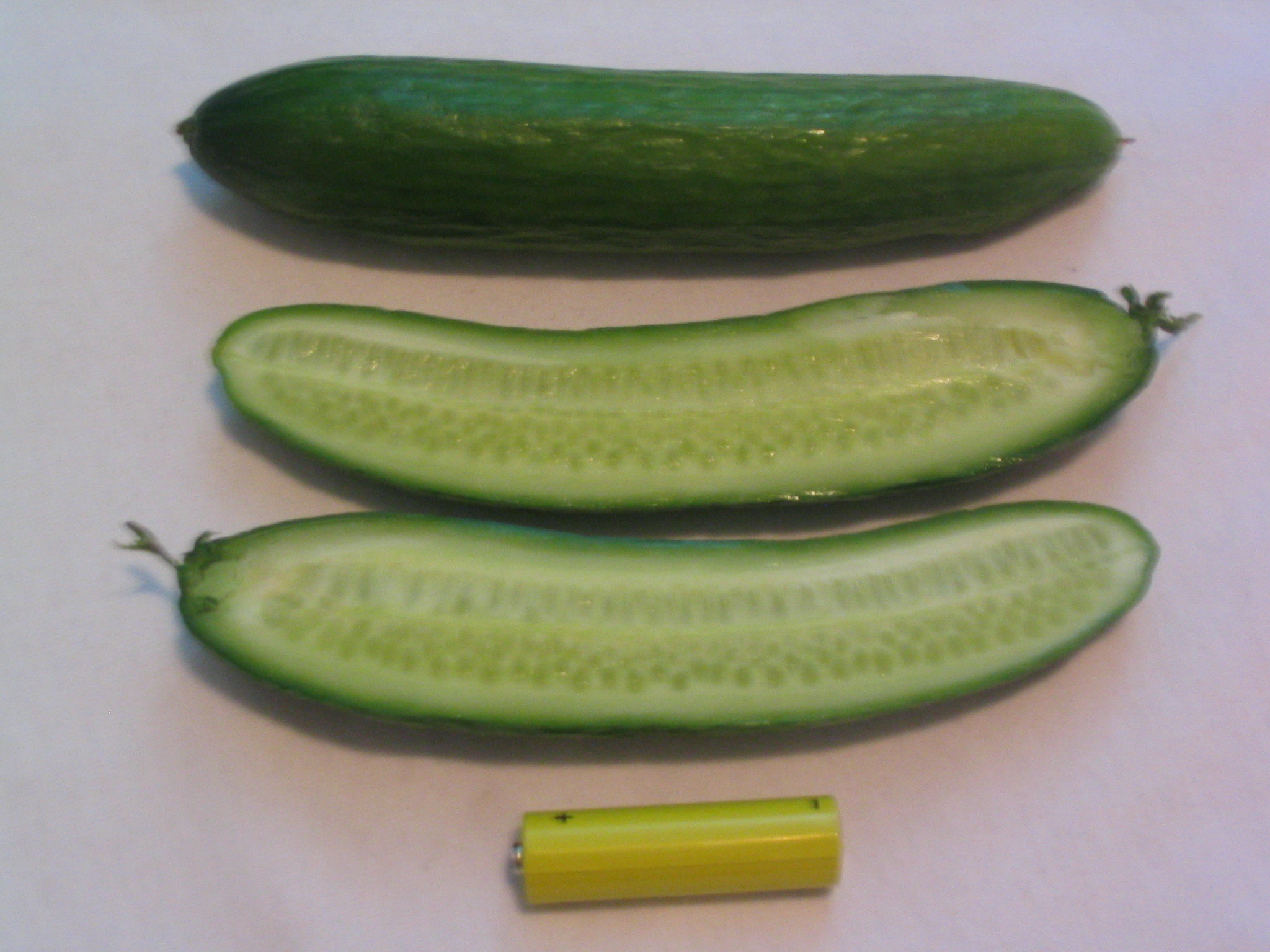 Mediterranean cucumber, sliced in half and whole, next to an AA battery for size comparison